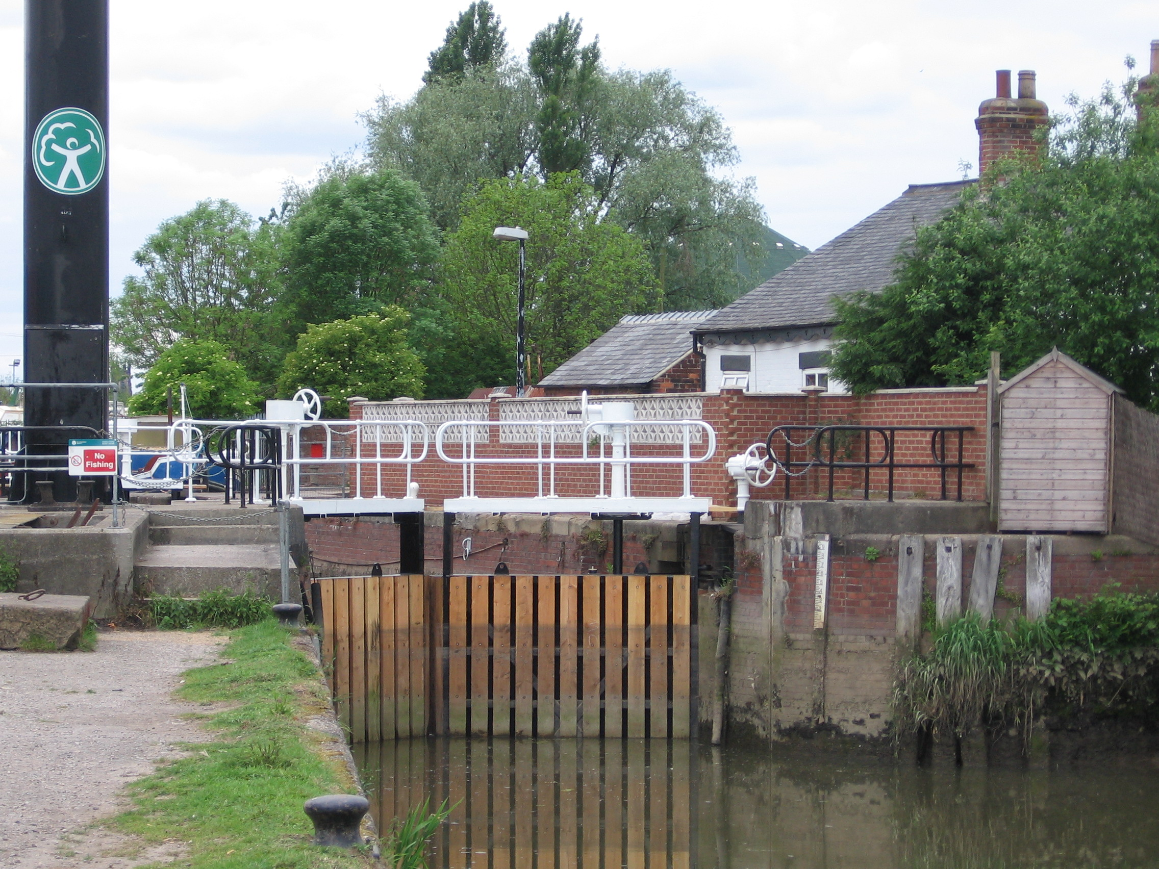 Grovehill Lock, Beverley Beck, Beverley, East Riding of Yorkshire, England. Photo taken be me on 26 May 2007.